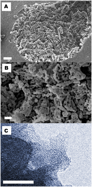 Electron microscopy images of Upsalite